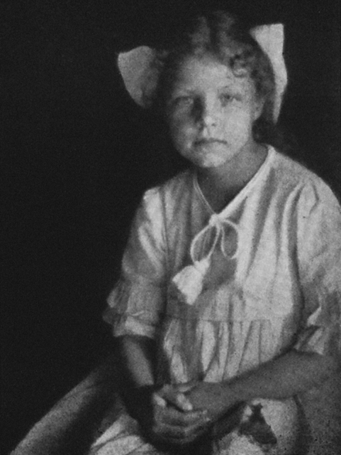 From the book Poems By a Little Girl, by Hilda Conkling. Published 1920. Photographer : James Chapin